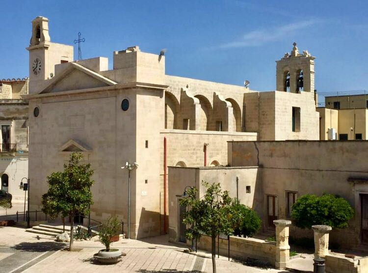 Chiesa Parrocchiale S. Maria delle Grazie - Merine